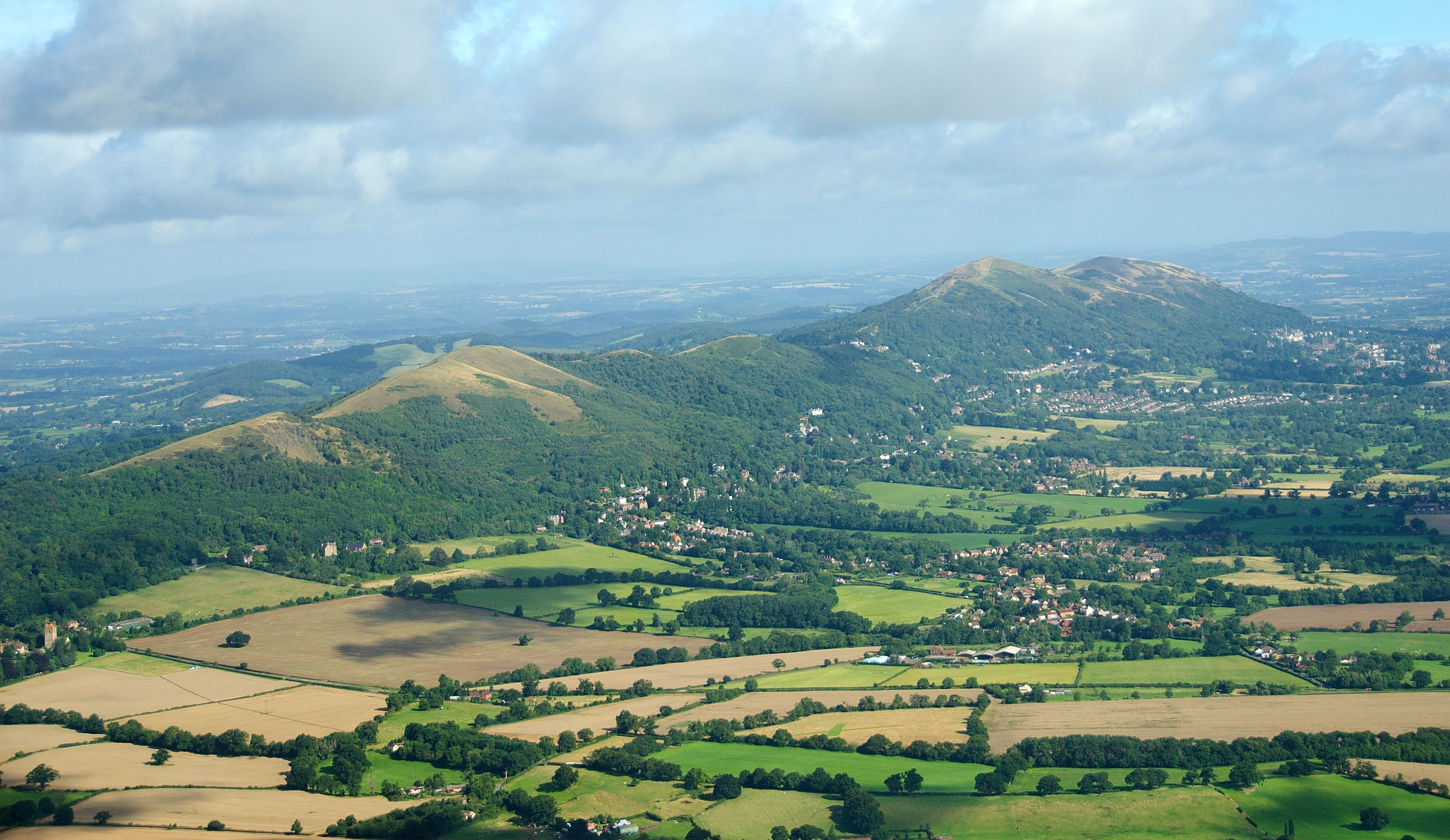 The Malvern Hills located in the English counties of Worcestershire and Herefordshire. The hills have been designated by the Countryside Agency as an Area of Outstanding Natural Beauty. The highest point is the Worcestershire Beacon at 425 metres (1,394 ft) above sea level. The range is a natural border between Worcestershire and Herefordshire.